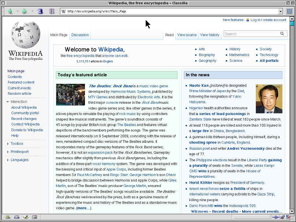 Screenshot of Classilla 9.2 on Mac OS 9.2.2 showing Wikipedia Main Page. My own work. Classilla is Mozilla-derived and GPL/MPL/LGPL tri-license. Wikipedia is CC BY SA 3.0.